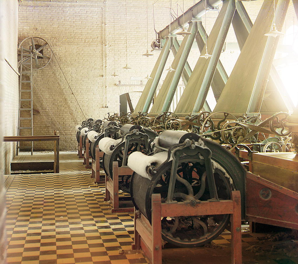 Cotton textile mill interior with machines producing cotton yarn, probably in Tashkent